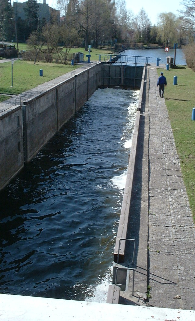 Poland, Augustowski Canal - Augustow lock.